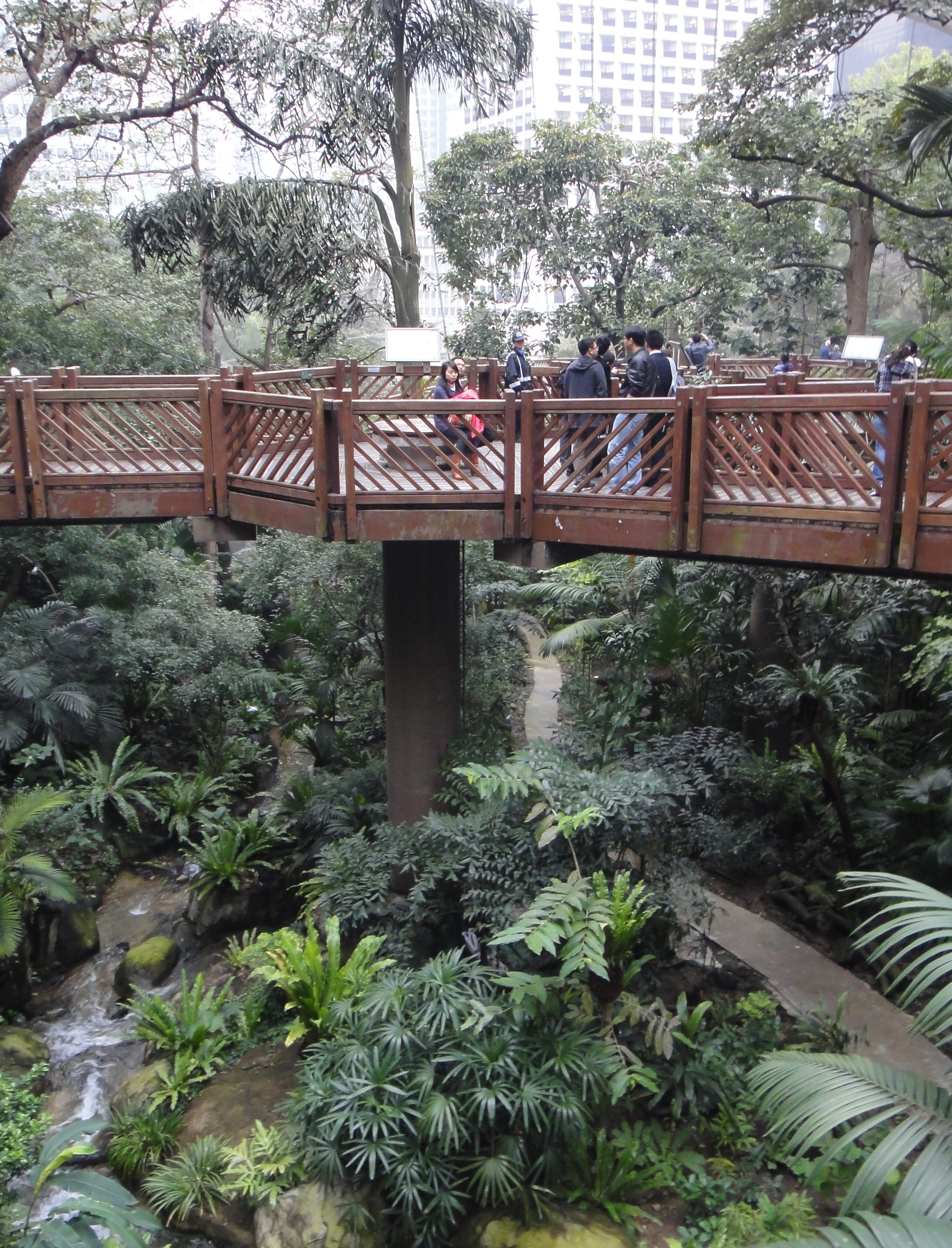 Edward_Youde_Aviary over the river